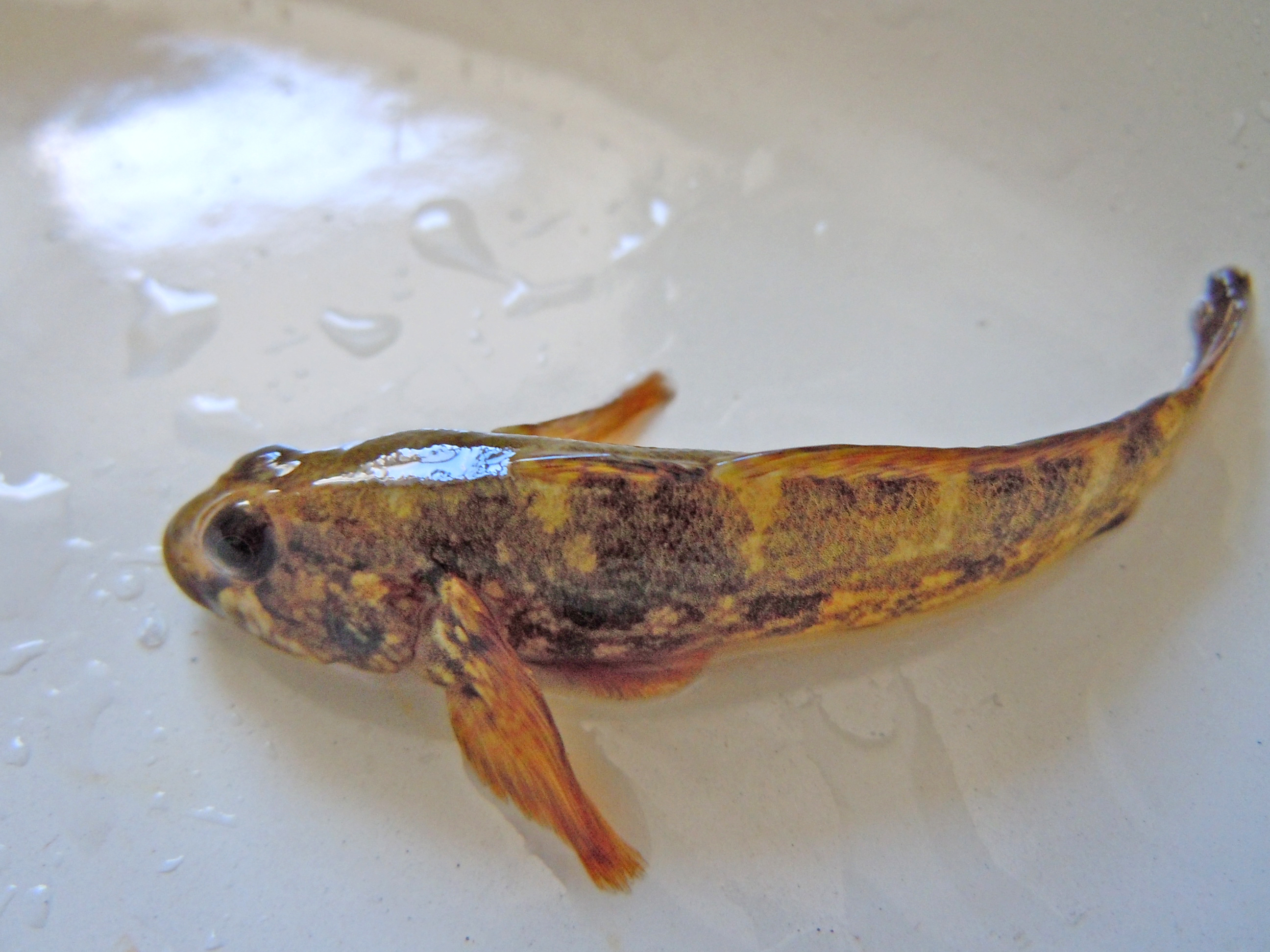 Ratan goby (Ponticola ratan) from the Gulf of Odessa, Ukraine